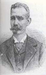 Aniceto dos Reis Gonçalves Viana (1840-19??) was a Portuguese writer and orientalist who led a committee that reorganised the spelling of Portuguese. Picture from Gonçalves Viana. Notes for his biography, reprint of the Bulletin of the Second Class of the Academy of Sciences (10, 1915-1916, p.4